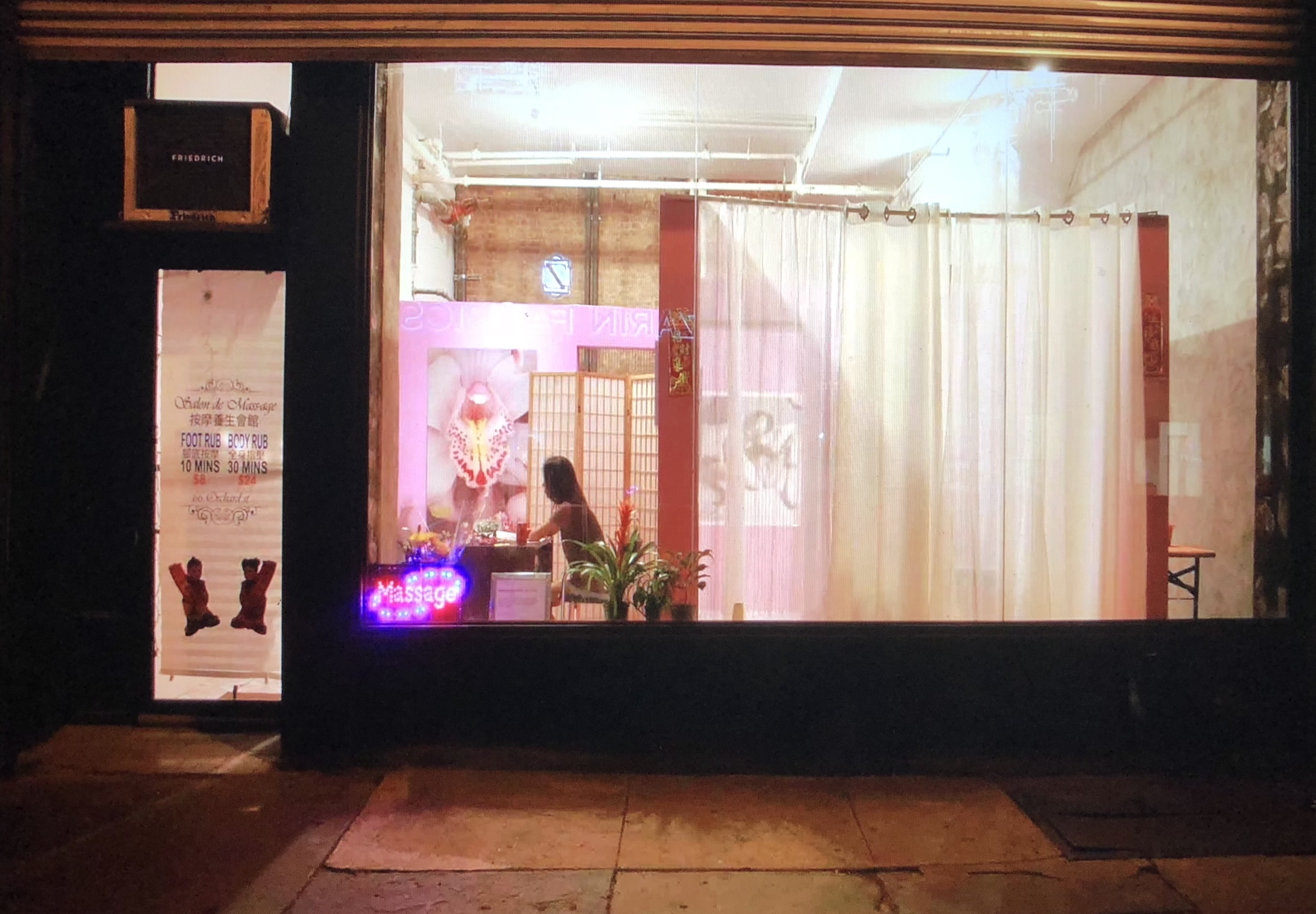 Installation view of Salon de Mass-age